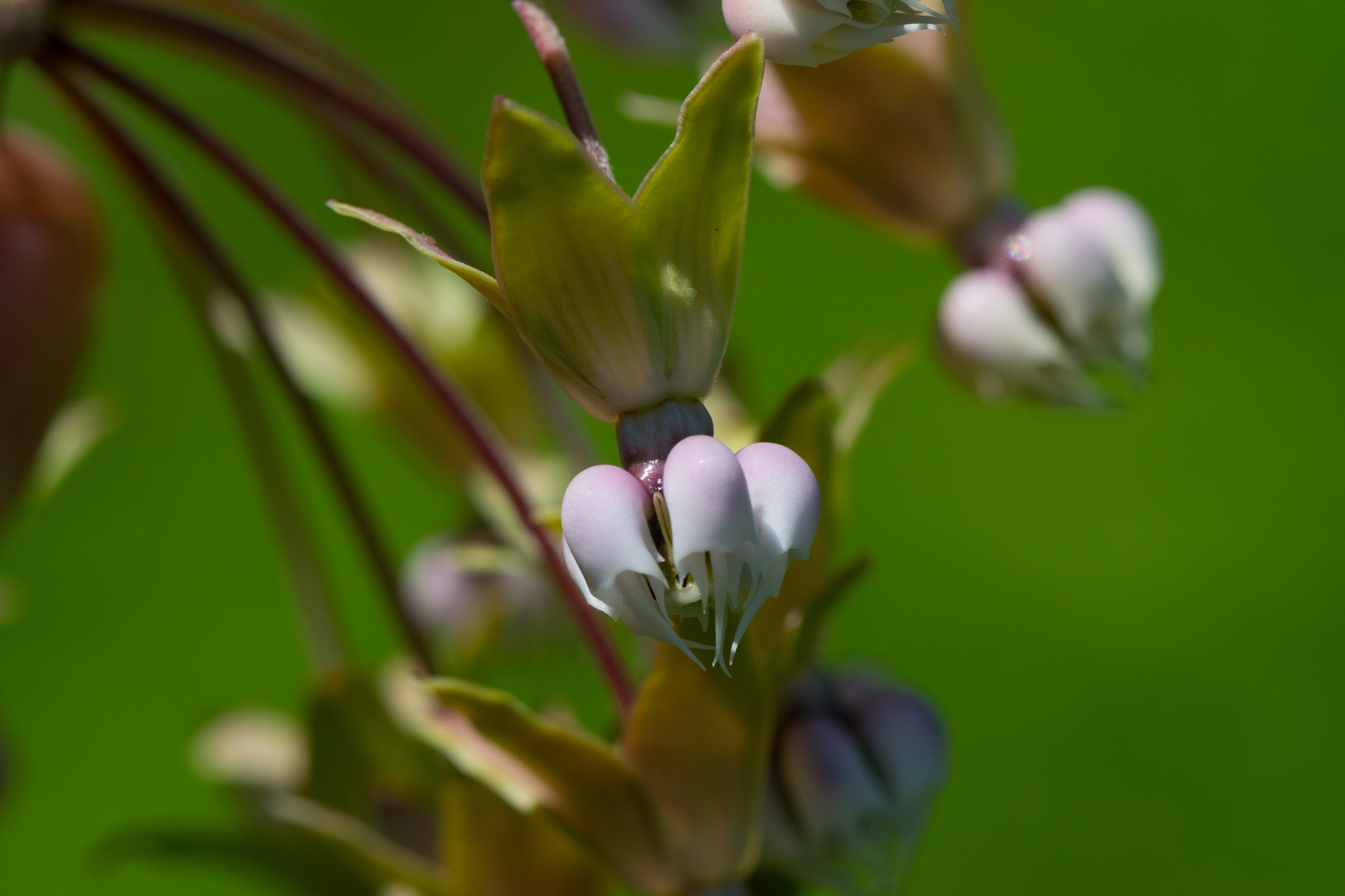 Clasping MIlkweed (Asclepias amplexicaulis) - Five-Mile Bluff Prairie, Wisconsin State Natural Area #76, Pepin County